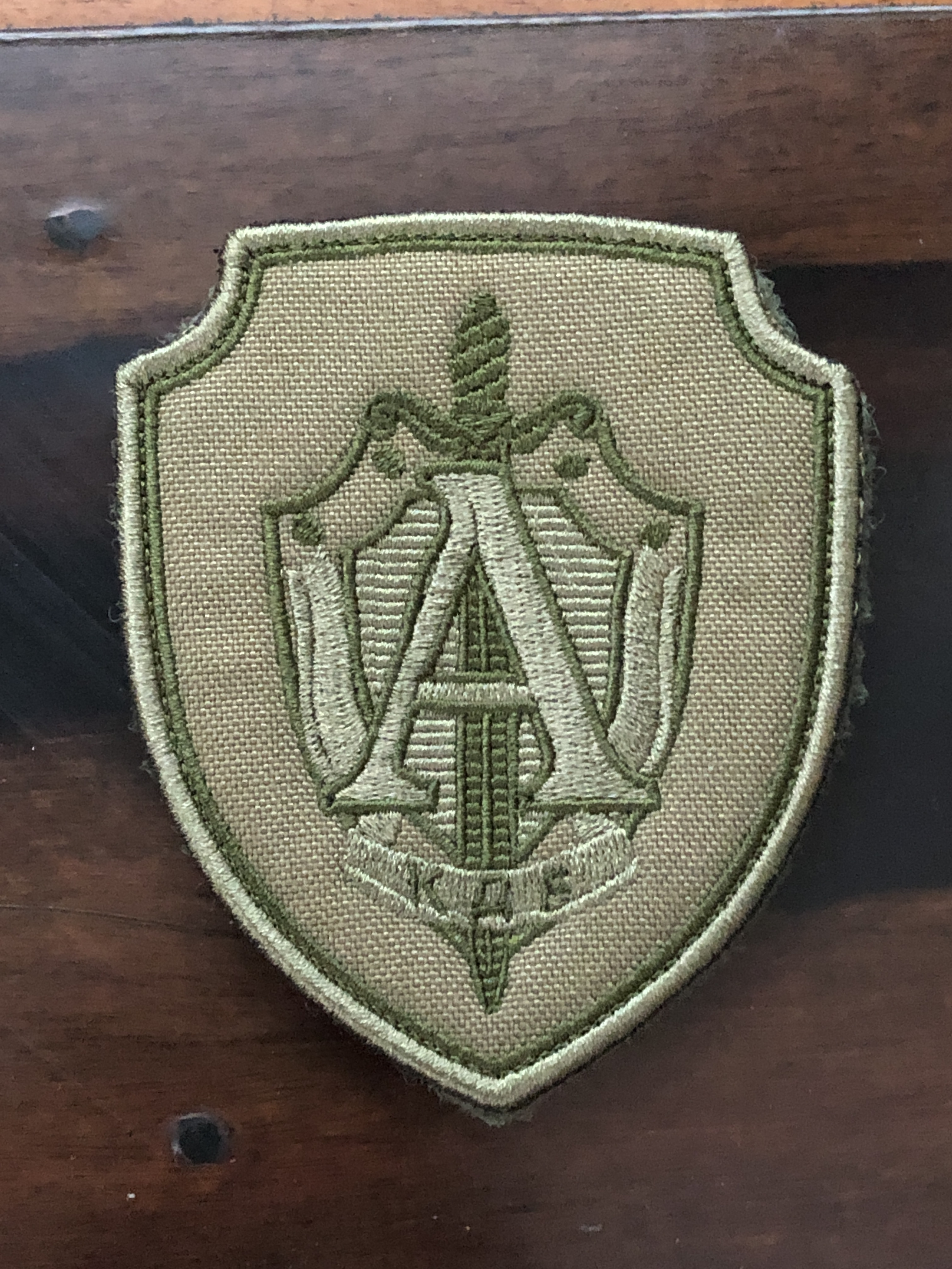 Velcro patch of KGB Alpha Group of Belarus.